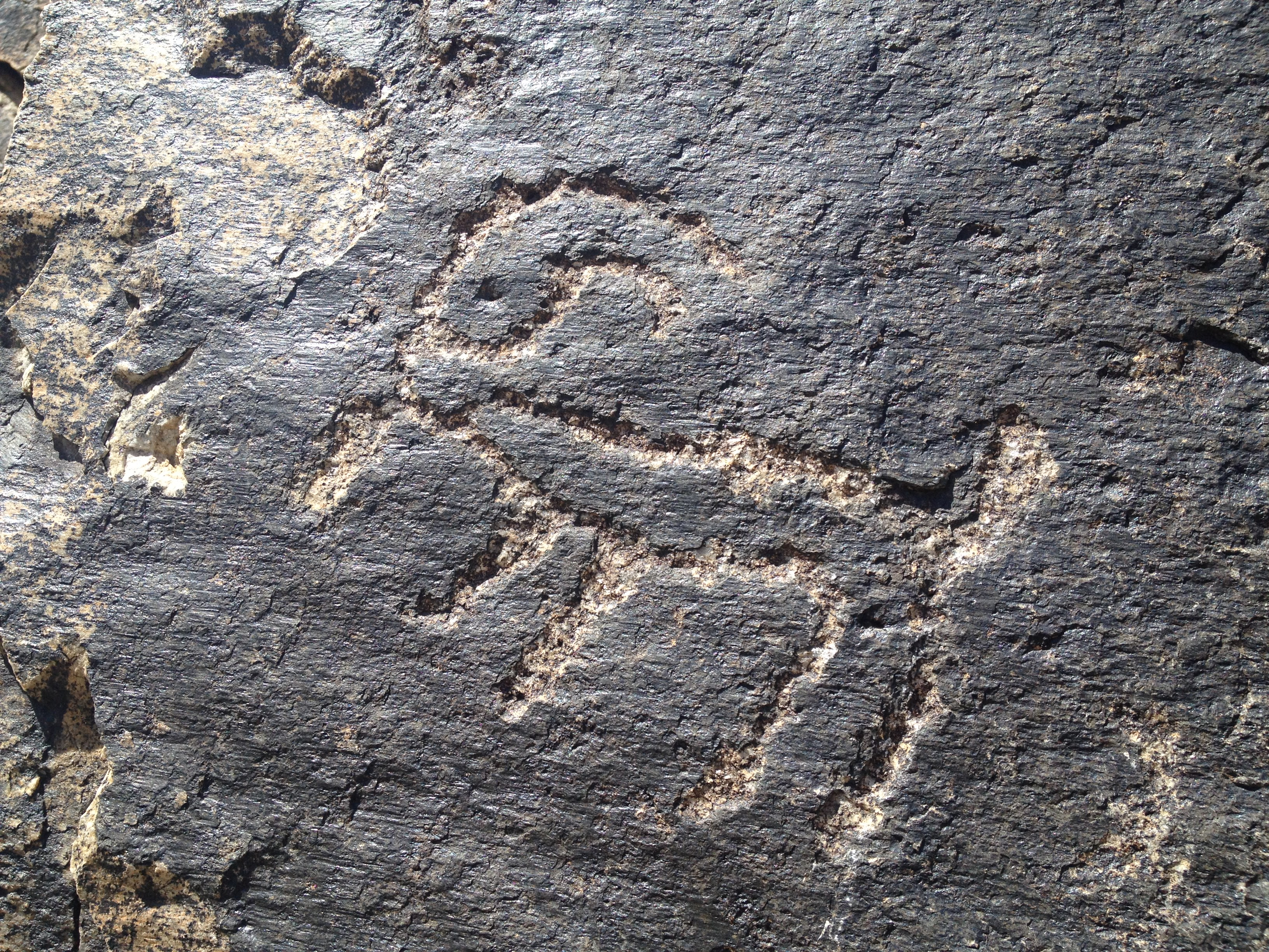 Petroglyph of a goat in Tamga-Tash group (Ilan-Say)